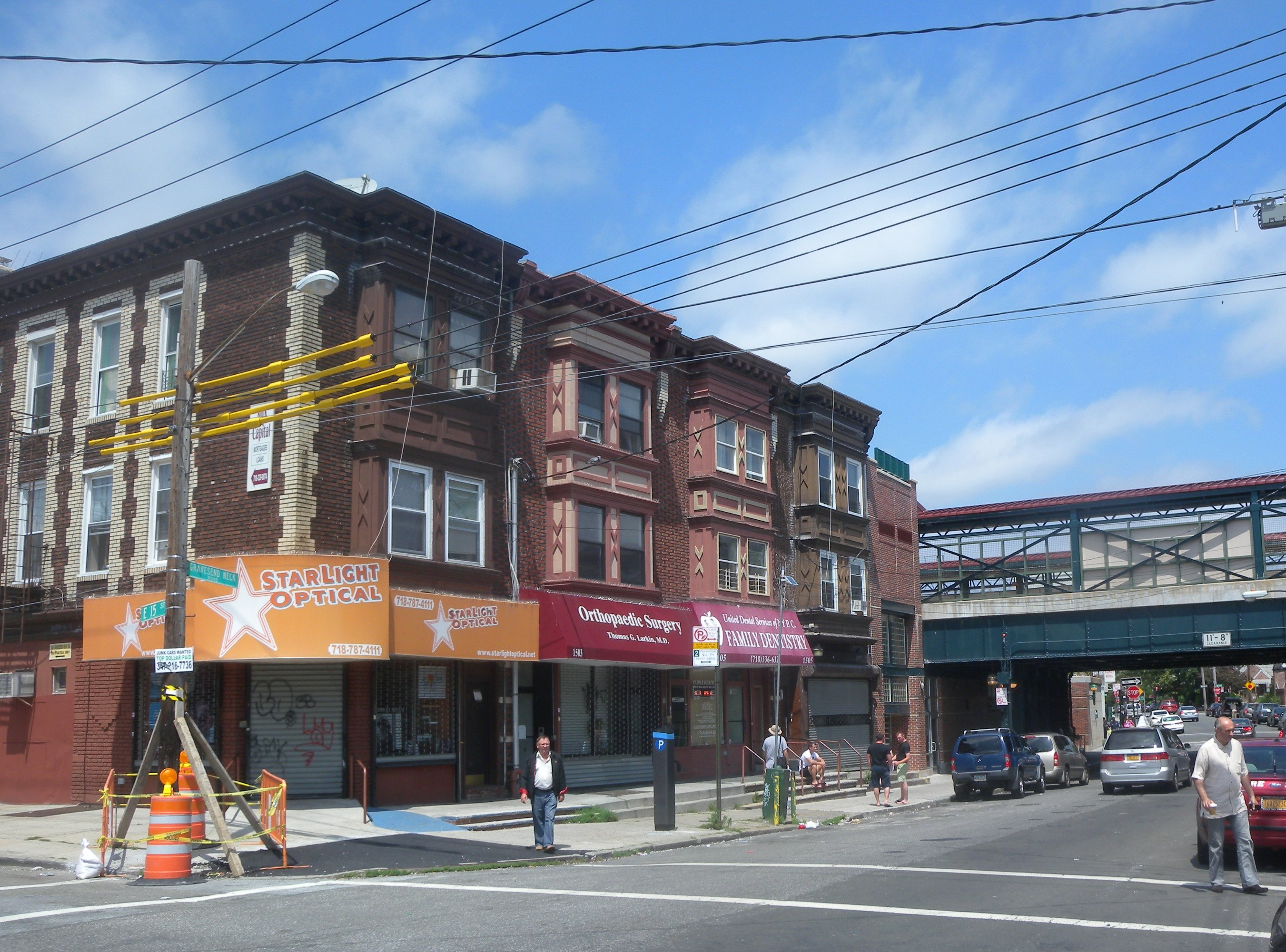 Looking northeast across Gravesend Neck Road and E15th St on a mostly sunny day.